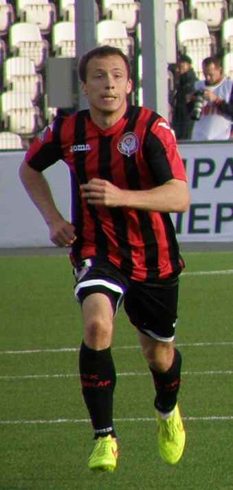 Syarhey Balanovich in action for FC Amkar